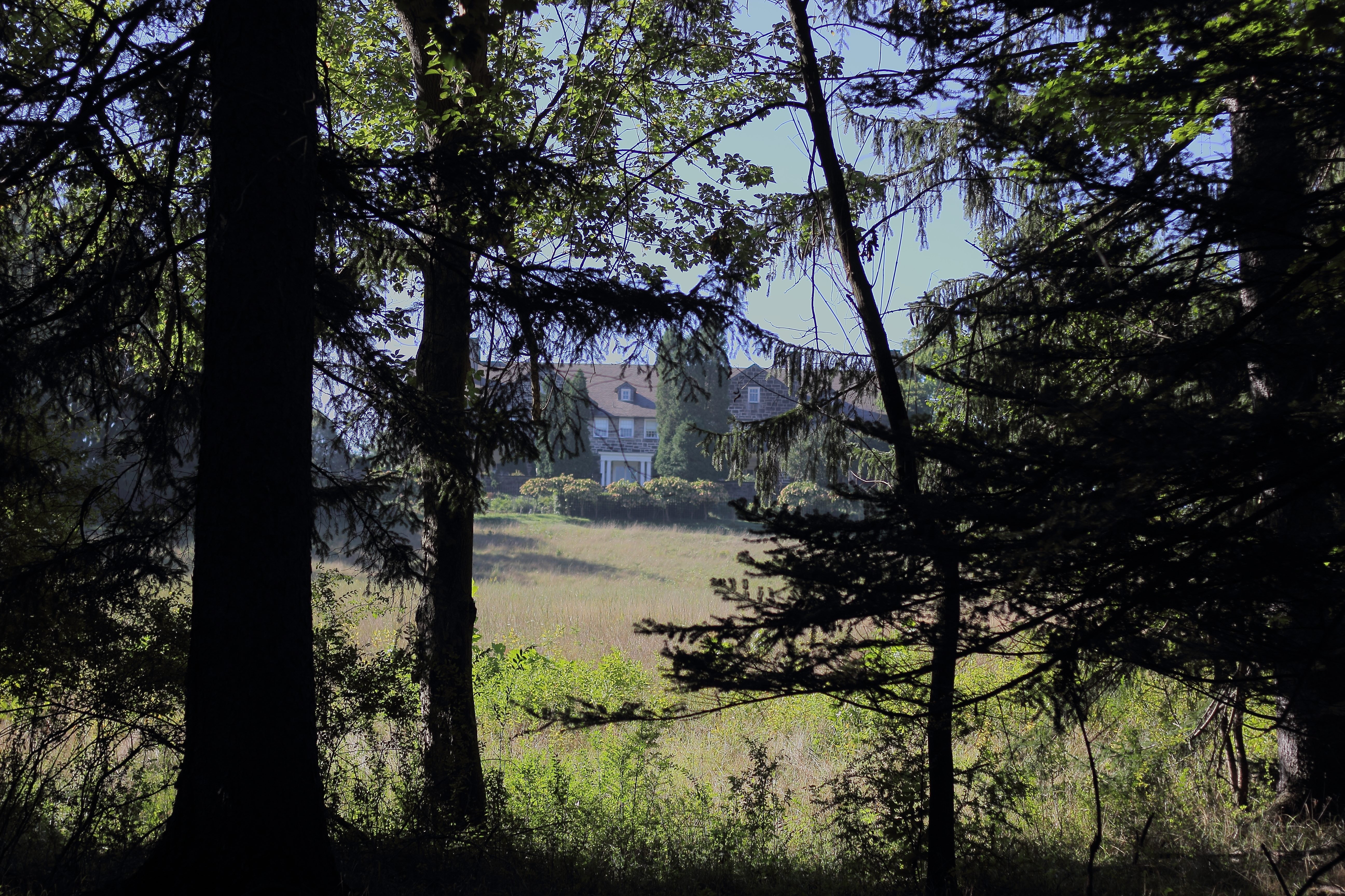 A stone building, viewed through the trees at the edge wall of the property, that is part of Wilpen Hall in Sewickley Heights, Pennsylvania